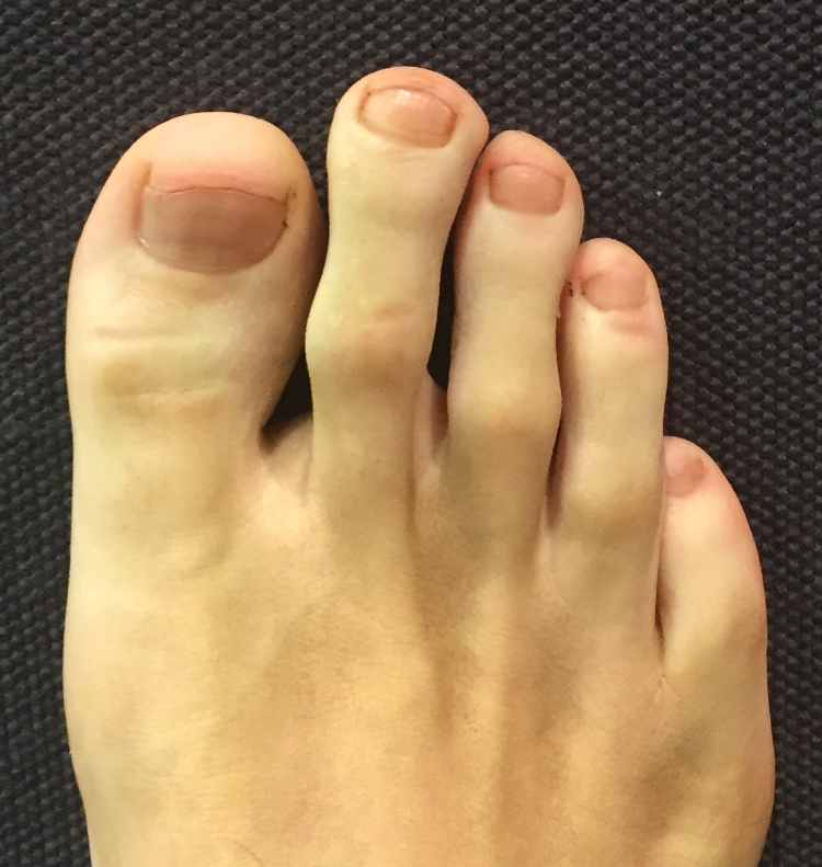 Morton's toe is commonly identified as distinctly longer than the big toe on the same foot.